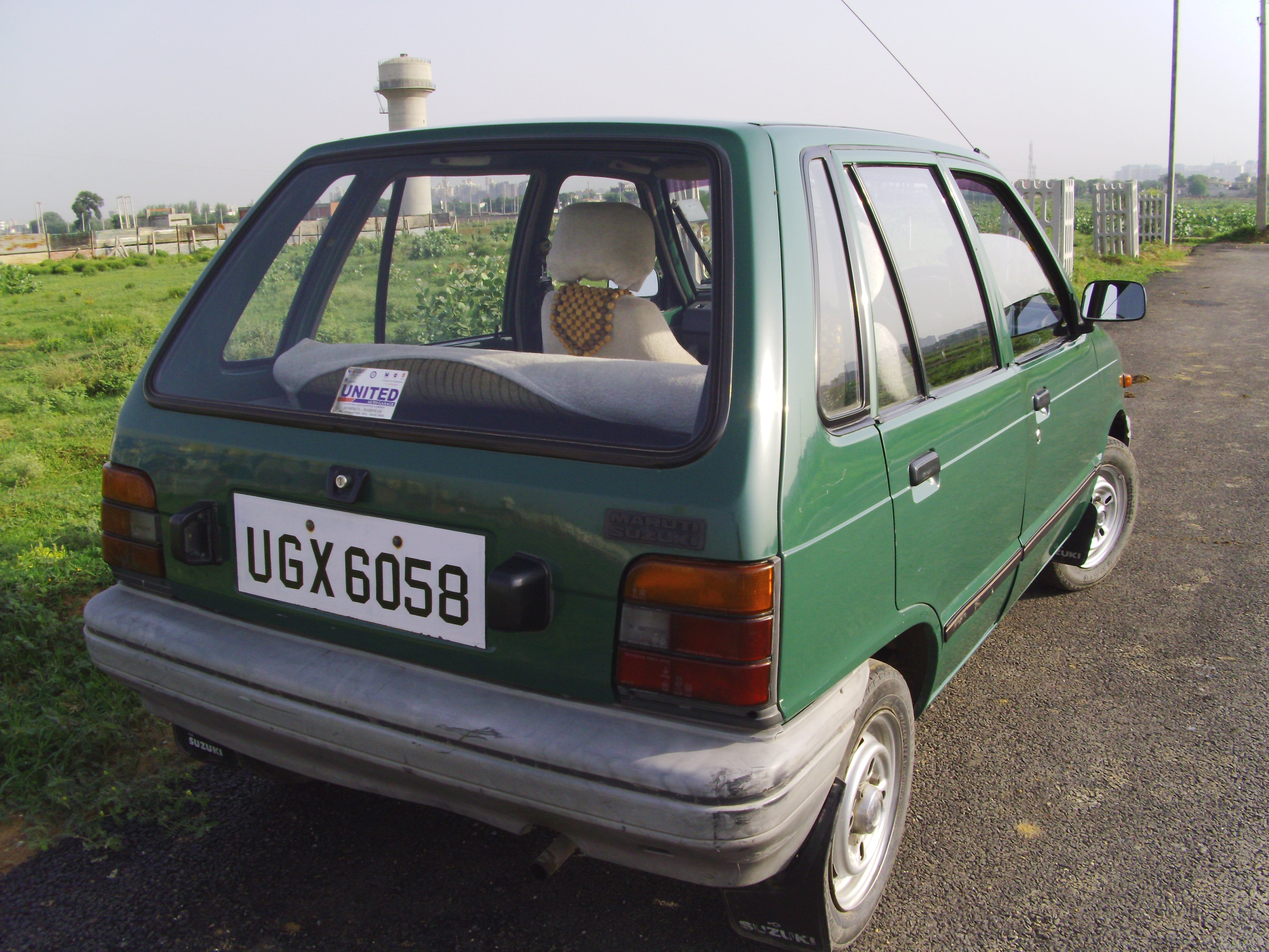 This Feb 1987 model was essentially an upgrade from SS80 to Aerodynamic and more spacious CA71 chassis housing the same 796cc F8B motor.